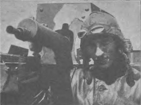 Polish Ford FT-B armoured car of 1920 with its designer Tadeusz Tański